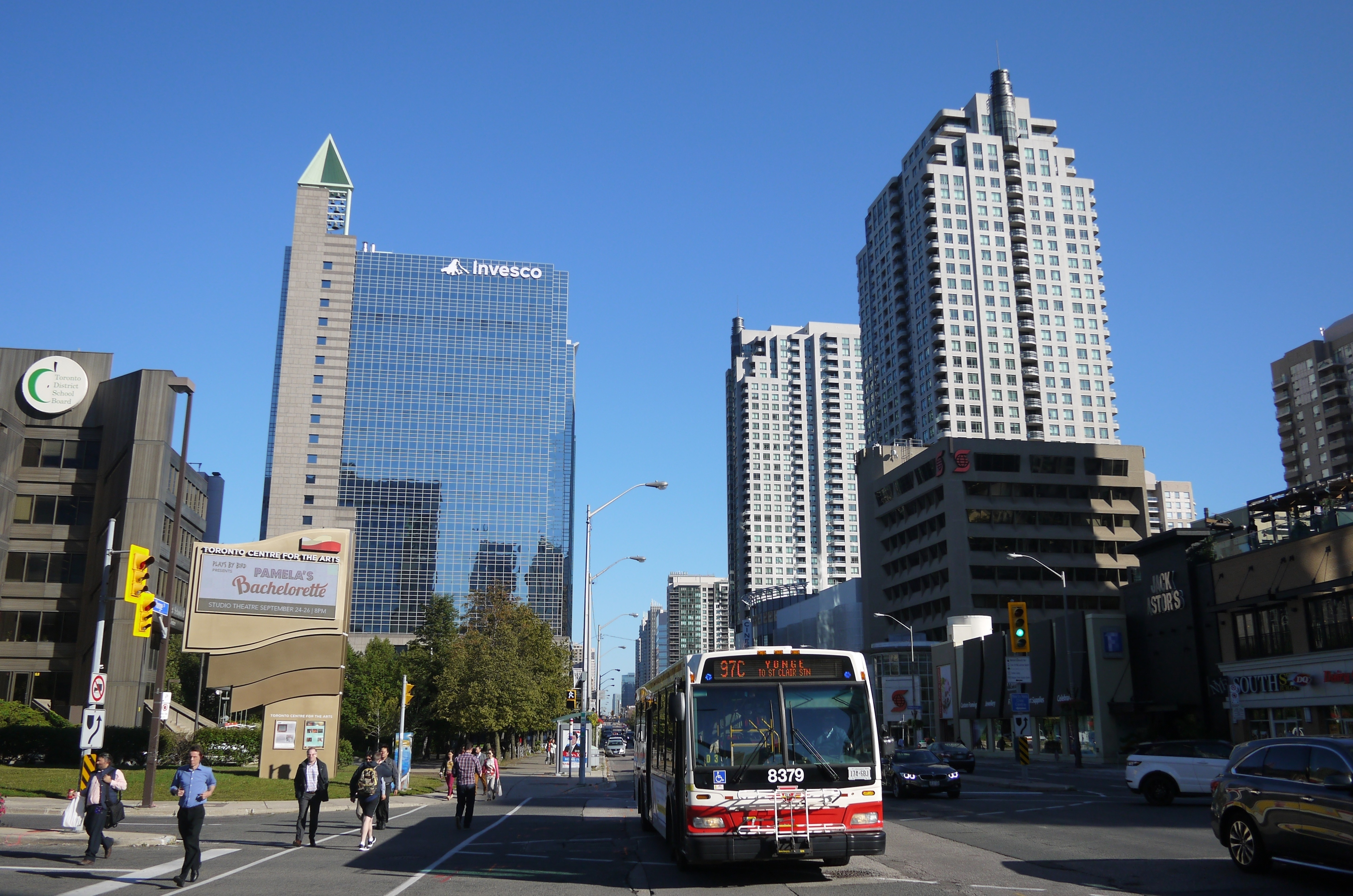 Photograph of Downtown North York taken by PFHLai on September 14, 2015 while standing on Yonge Street outside the Toronto Centre for the Arts and the Toronto District School Board Education Centre, facing north.